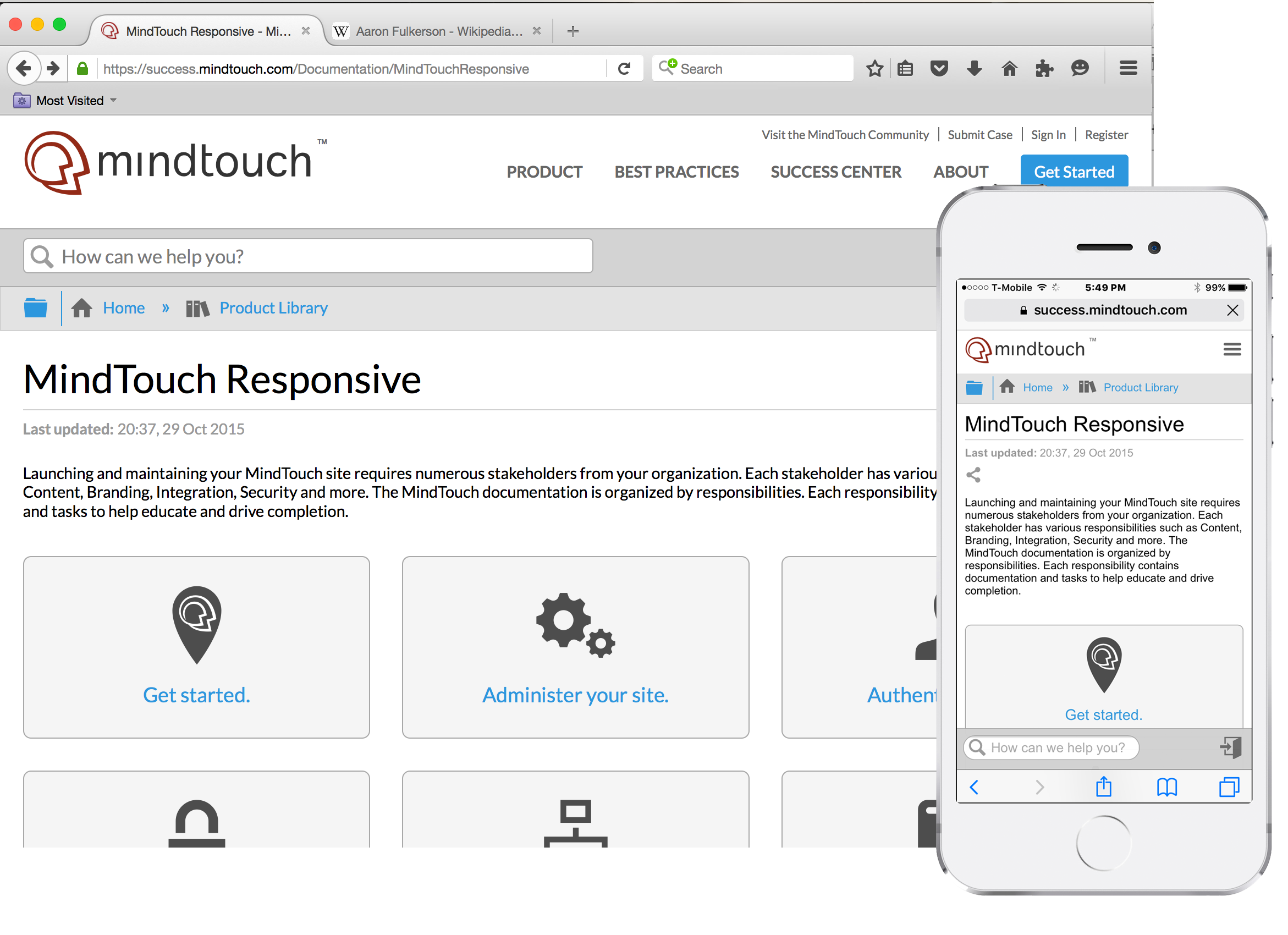 MindTouch Responsive screenshot on desktop and mobile